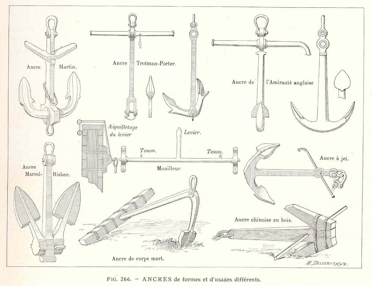 Subject: Ships--Equipment and supplies, Anchors Tag: Vessels